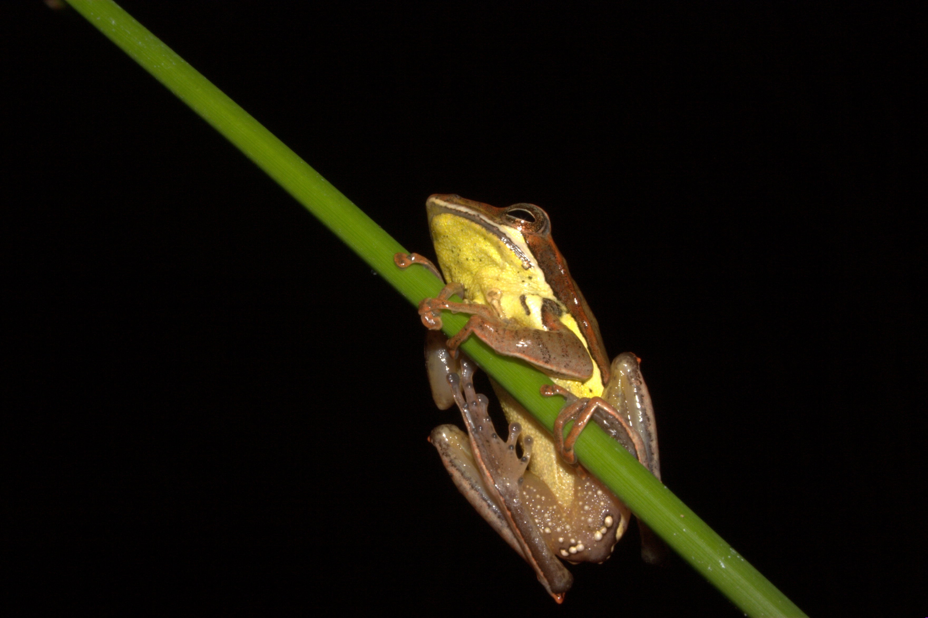 Taruga eques at Haggala3